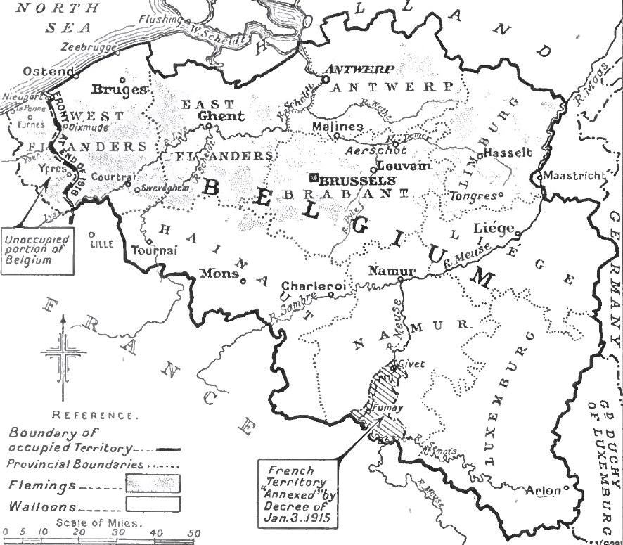 Map of Belgium under the Generalgouvernment, 1914-1916